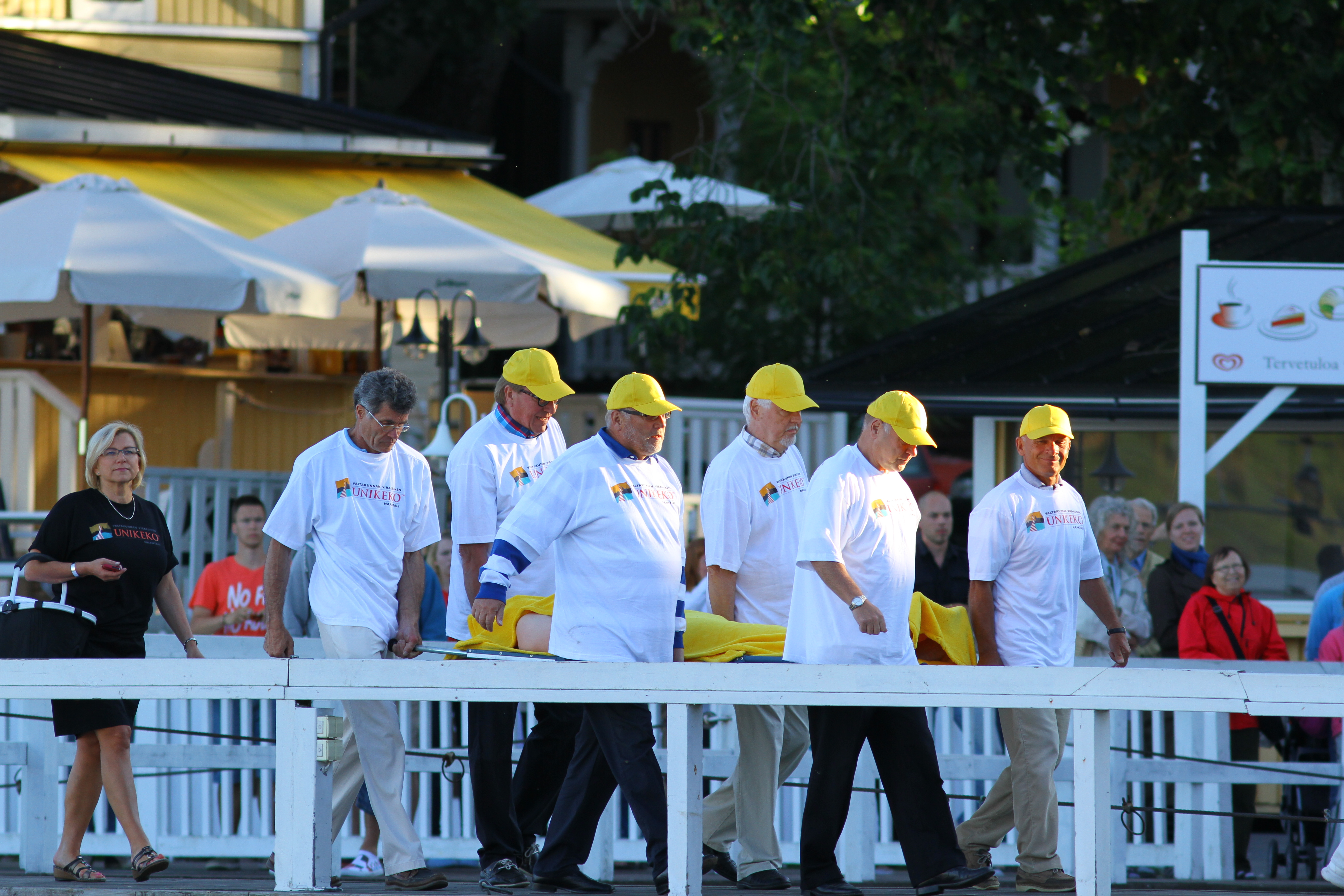 National Sleepy Head Day (Finnish: Unikeonpäivä) in the city of Naantali, Finland.